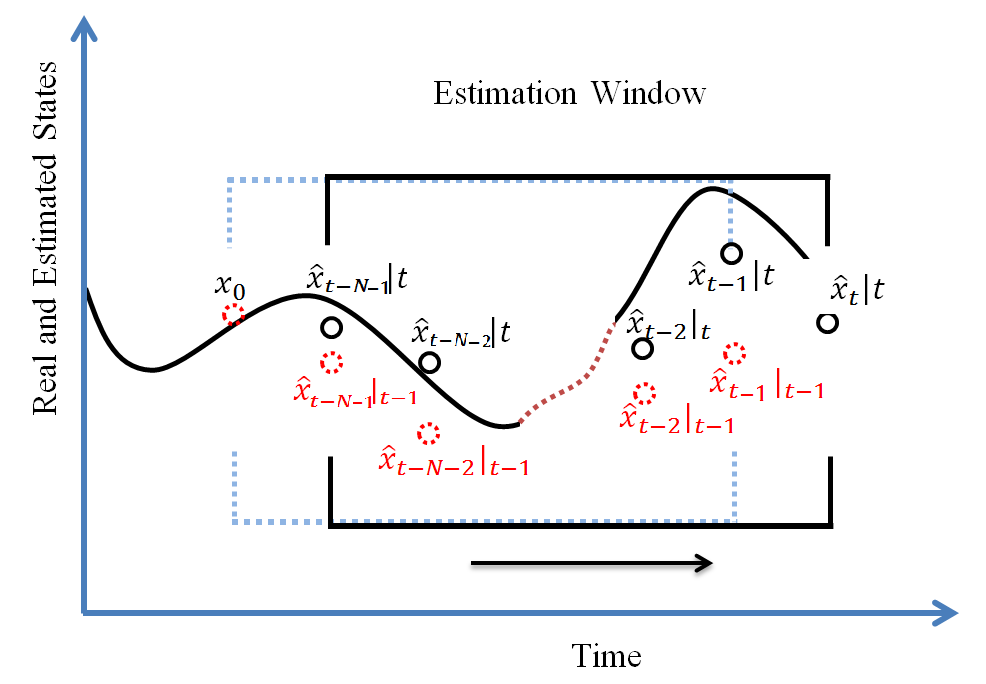 Moving horizon estimation uses a sliding time window. At each sampling time the window moves one step forward. It estimates the states in the window by analyzing the measured output sequence and uses the last estimated state out of the window, as the prior knowledge. .